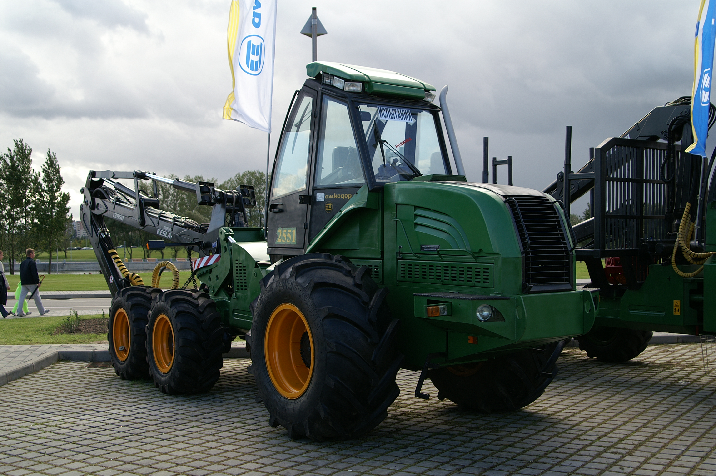 Amkodor harvester in Minsk